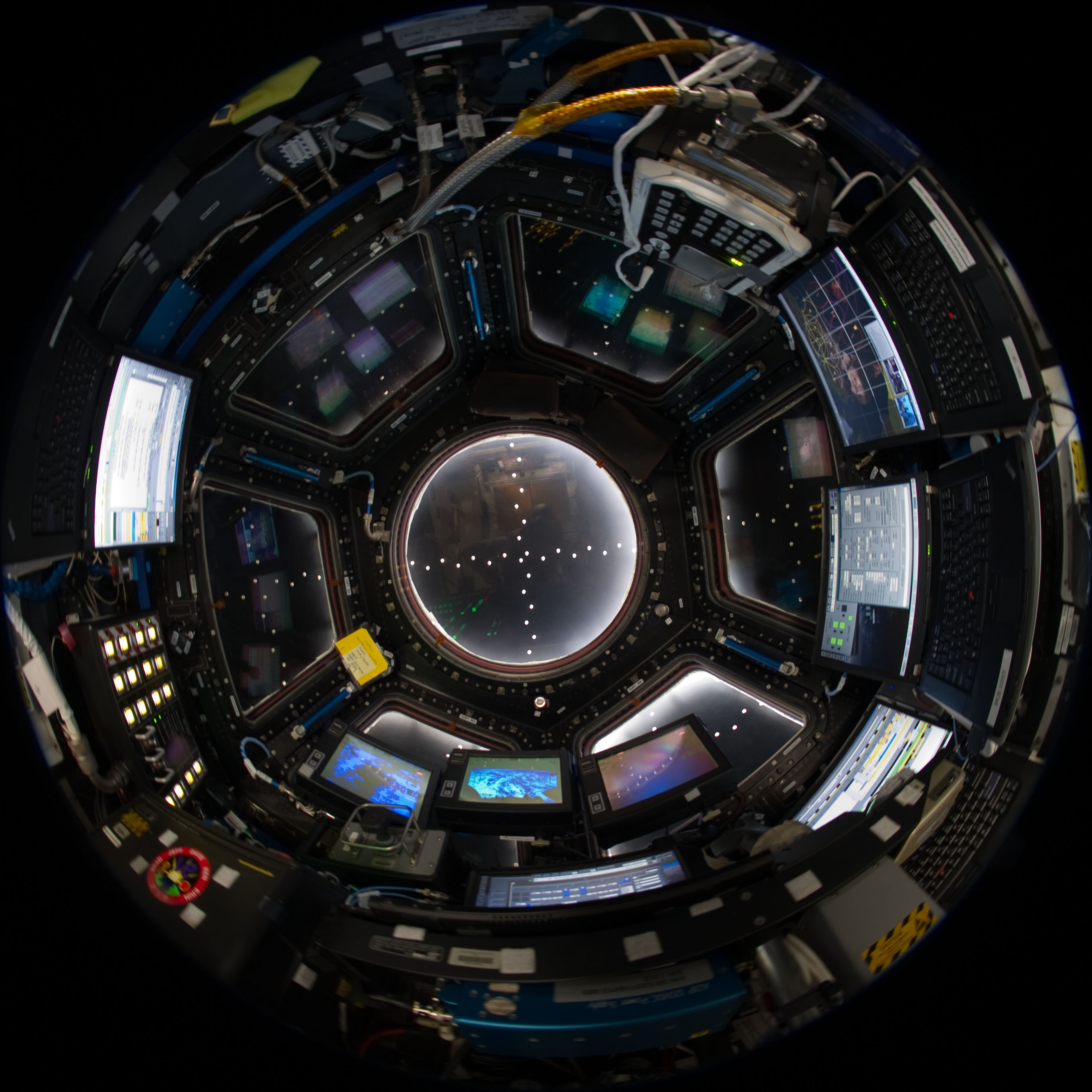 An Expedition 26 crew member used a fish-eye lens attached to an electronic still camera to capture this image of the Cupola of the International Space Station.